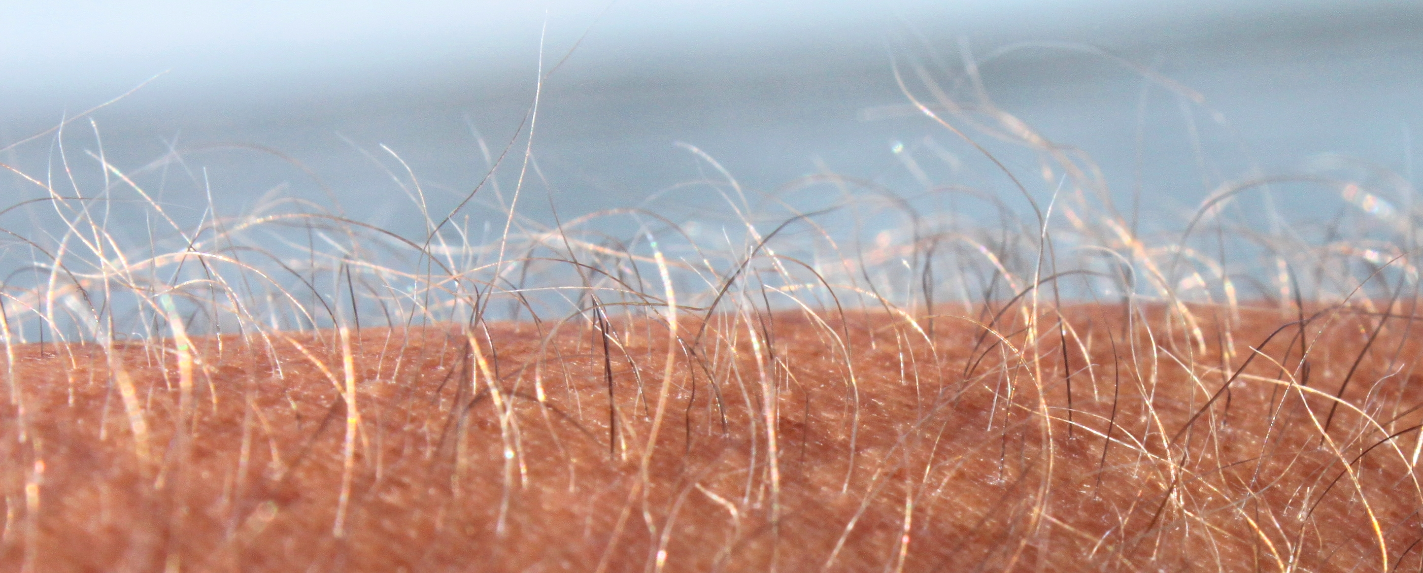 Detail of hairs on forearm